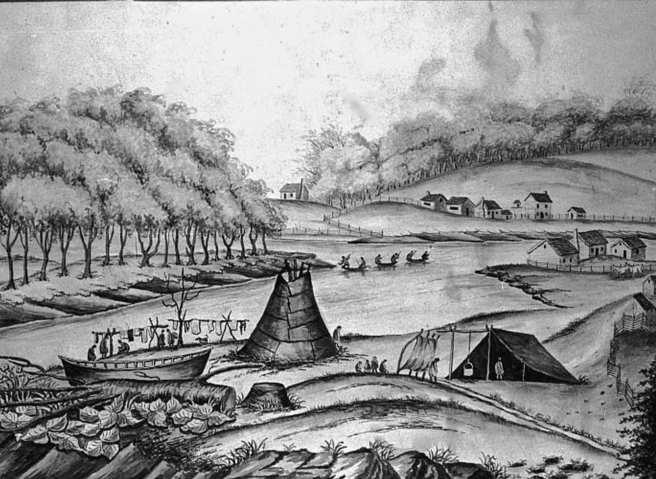 The single cabin on the hill between was Chief Noonday's while the cabins further down the river are part of the Baptist mission. T Louis Campau's trading post consists of the three buildings seen in the middle right. An Indian wigwam, shelter and canoe are also pictured in the foreground. Island #1 is seen in the middle left, while Indian canoes are on the river. Women are seen near the wigwam washing clothes.